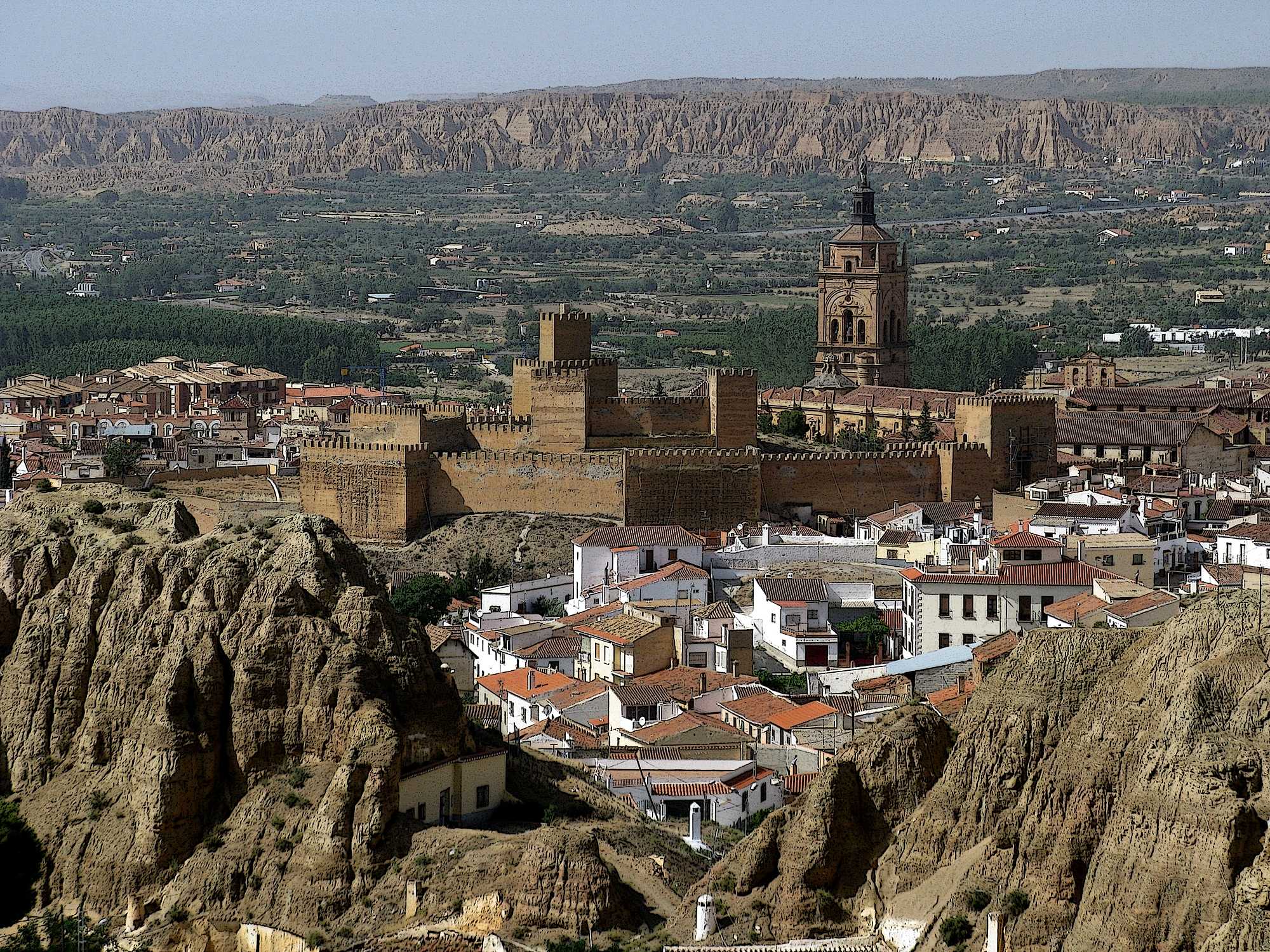 Moorish Castle - Cathedral - in Guadix Spain